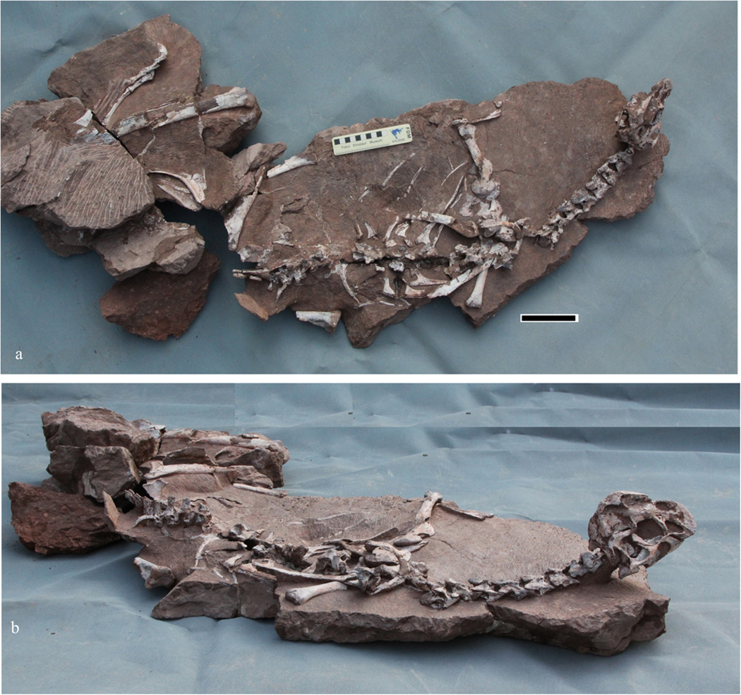 The whole skeleton of the holotype Tongtianlong limosus gen. et sp. nov. in dorsal view (a) and lateral view (b). Scale bar = 10 cm.